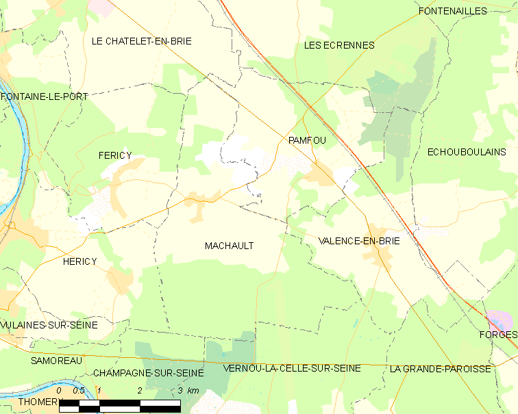 Map of French municipality Machault